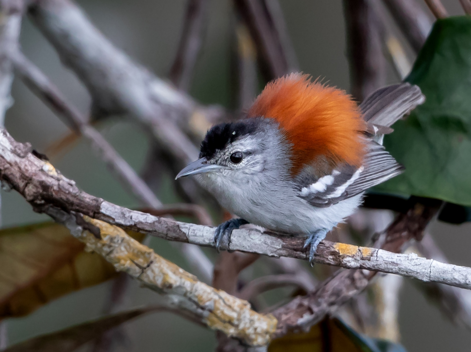 Ash-winged antwren (male); Manaus, Amazonas, Brazil